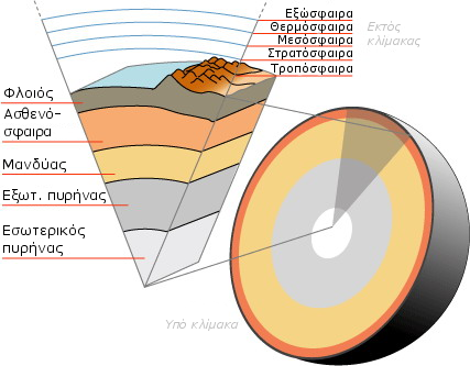 Greek translation of Image:Earth-crust-cutaway-english.png by Jeremy Kemp